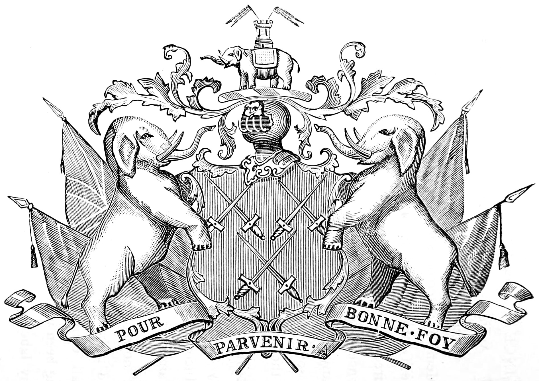 Cutlers' Company, coat of arms; motto: Pour parvenir bonne foy